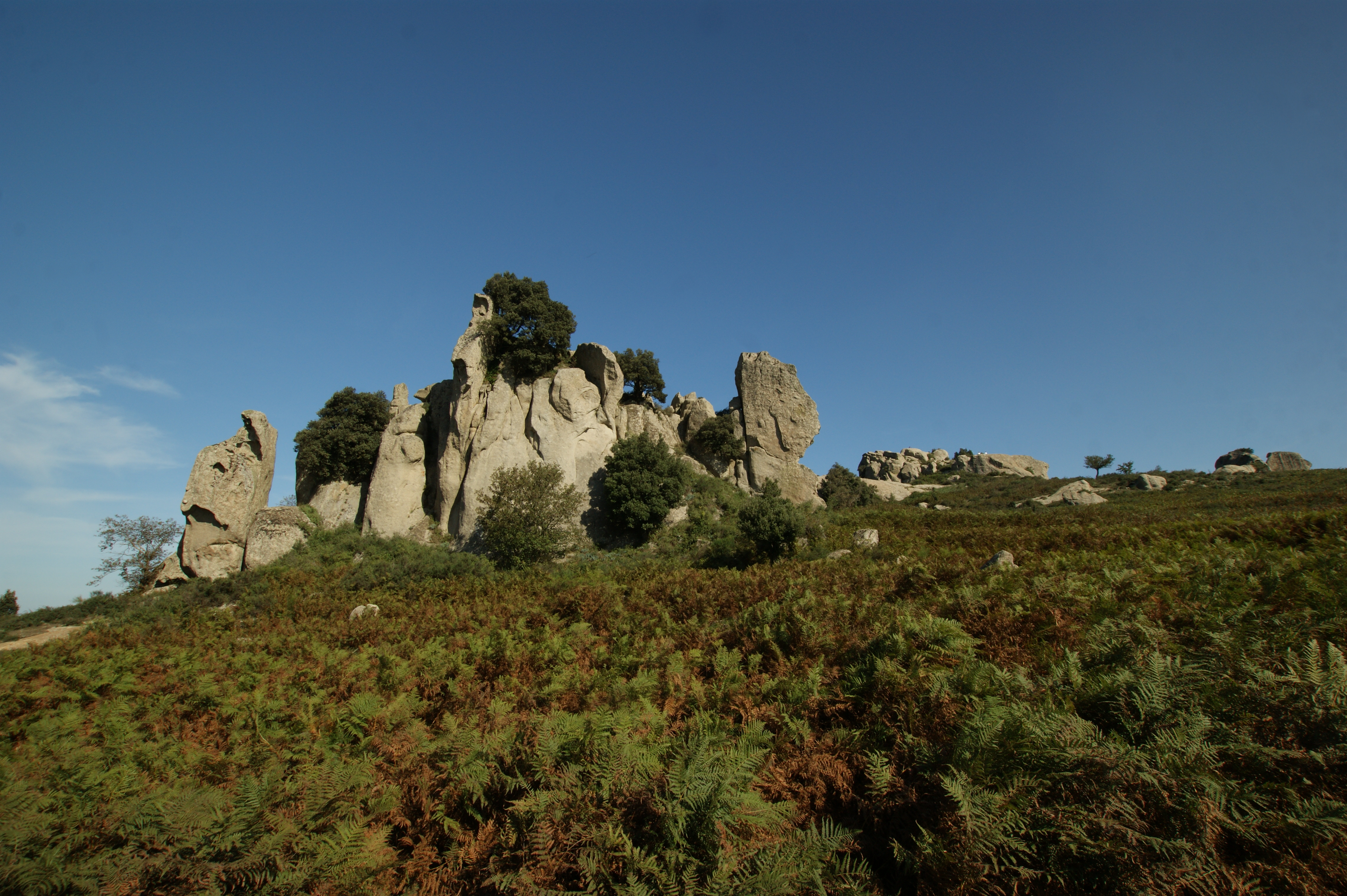 Rocche Argimusco, Sicily. Natural rock formations.